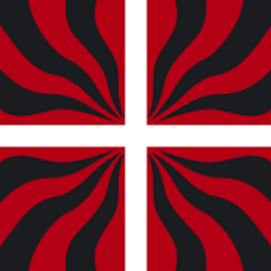 Military flag of the Bernese Ancien Régime